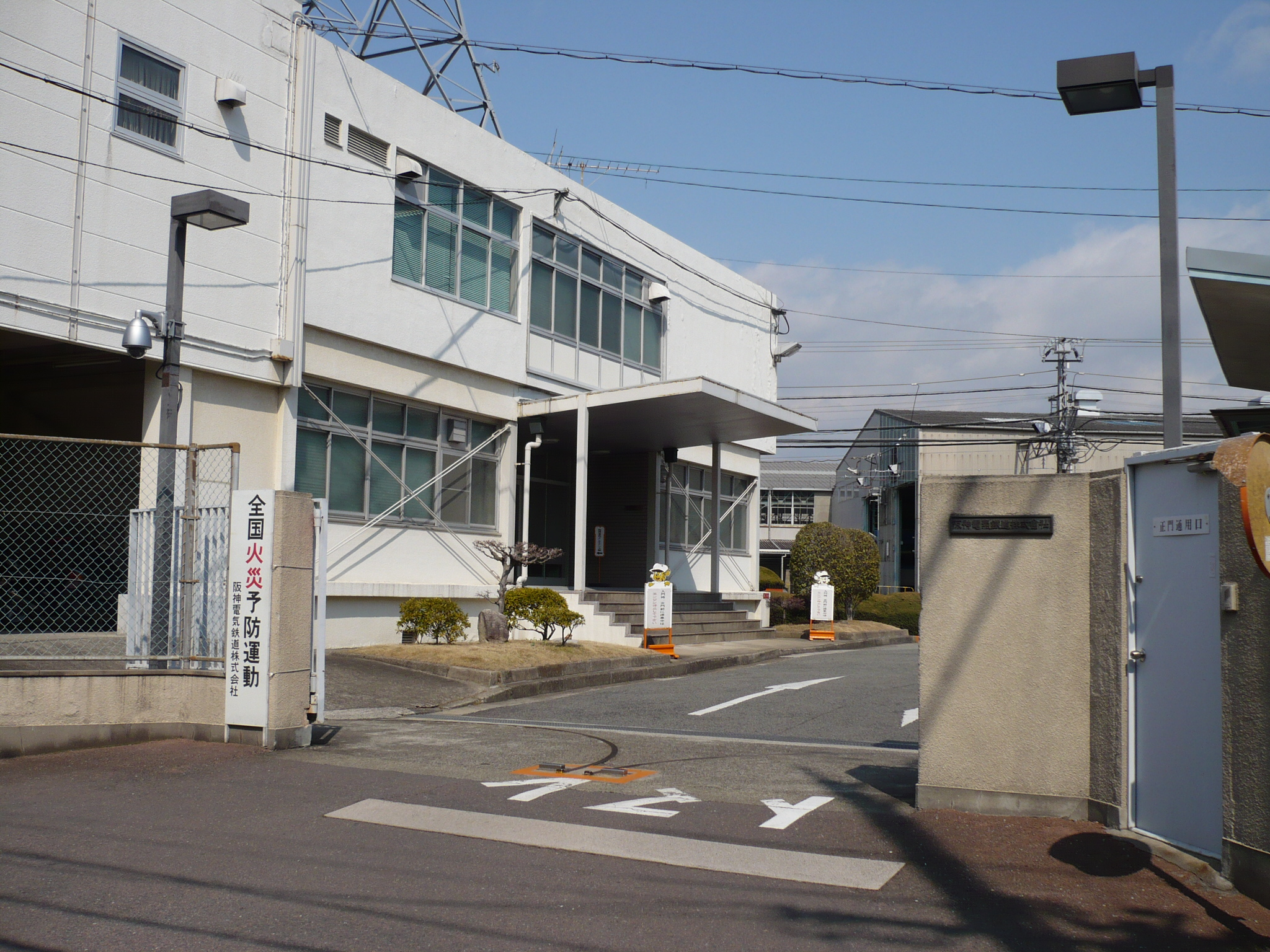 The main entrance to Hanshin Electric Railway's Amagasaki train depot in Amagasaki, Hyōgo Prefecture, Japan.